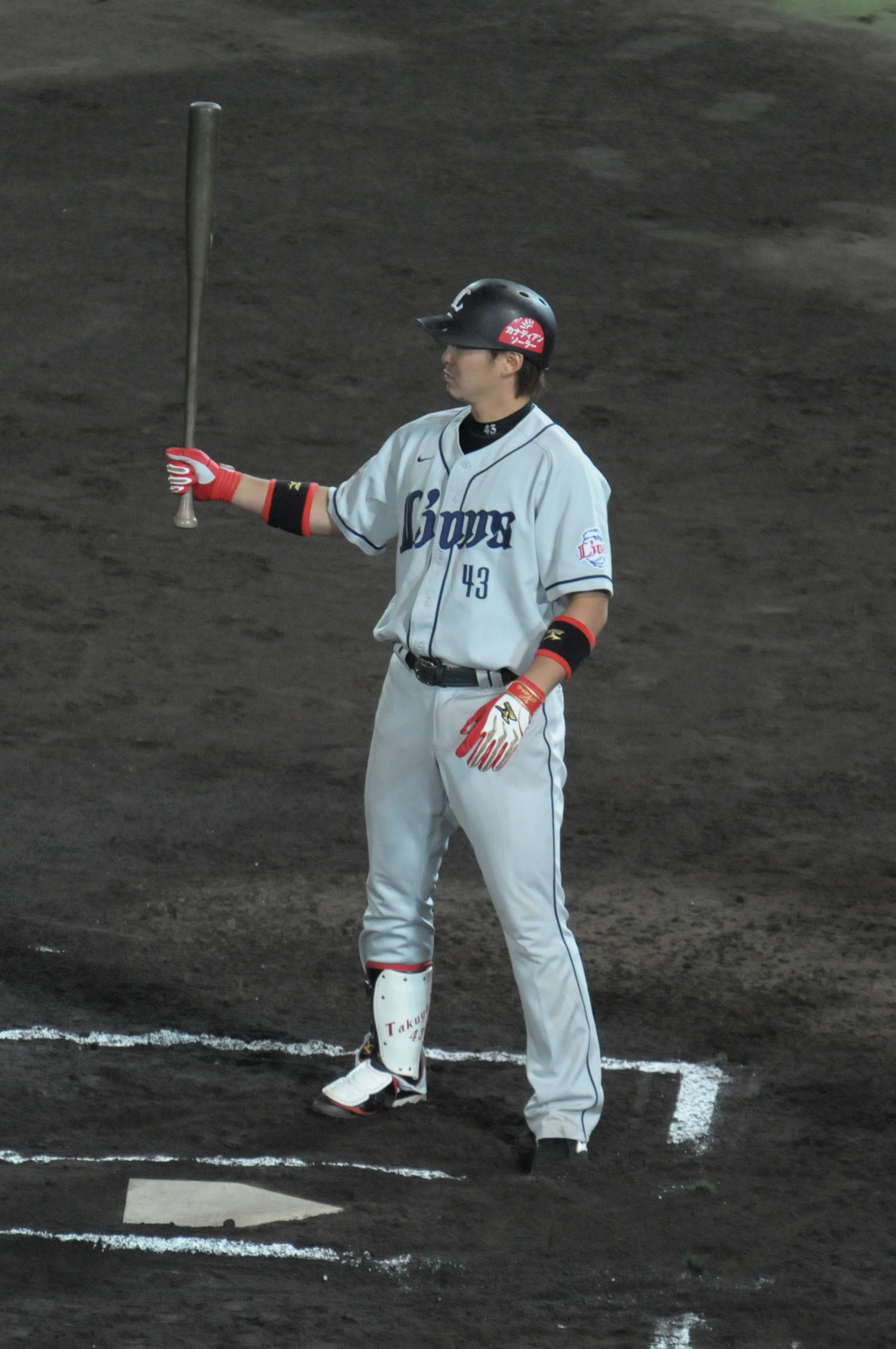 Takuya Hara, infielder of the Saitama Seibu Lions, at Akita Prefectural Baseball Stadium.